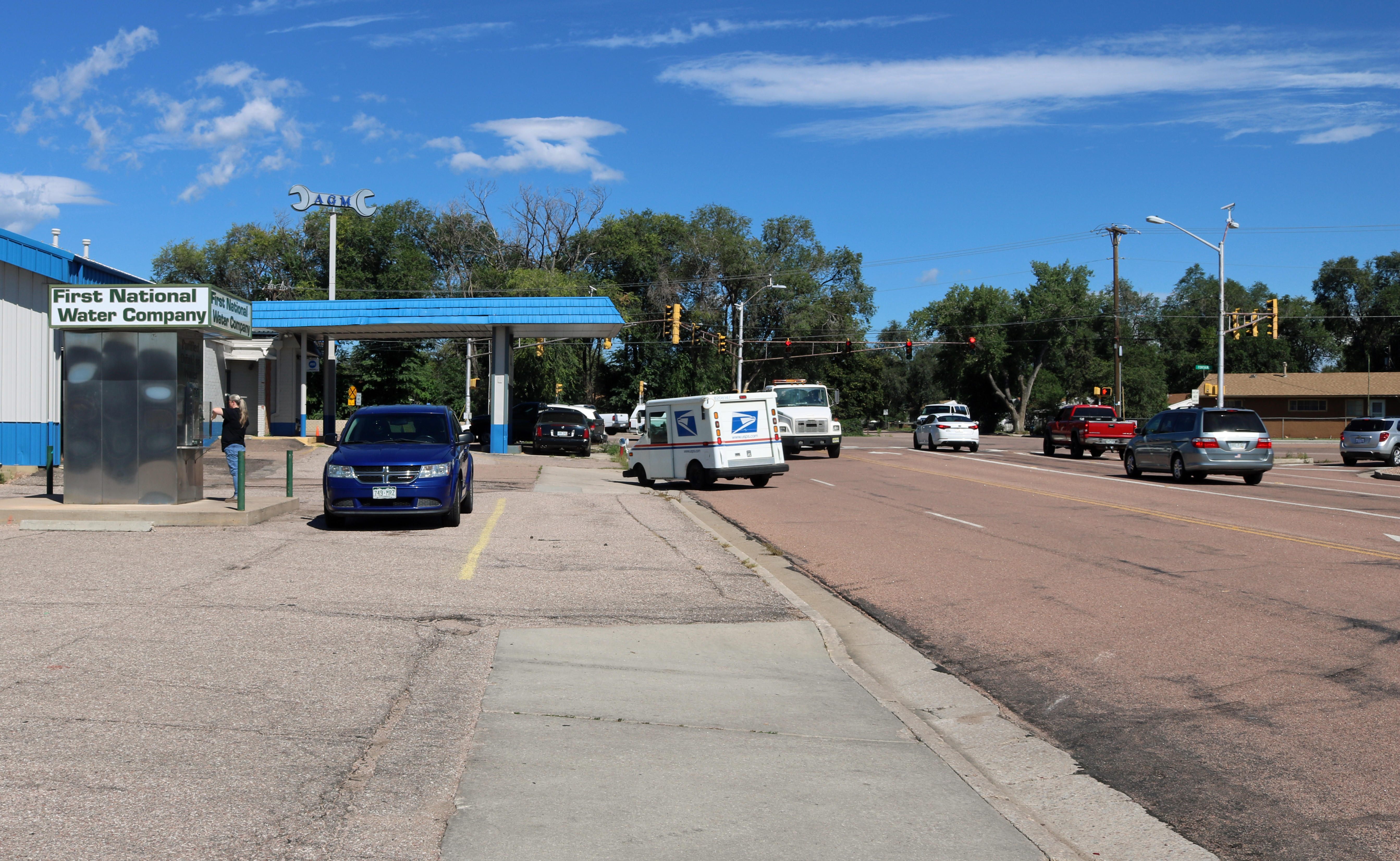 Looking northwest along Widefield Boulevard towards its intersection (at the stoplight) with Fontaine Boulevard in Security-Widefield, Colorado.